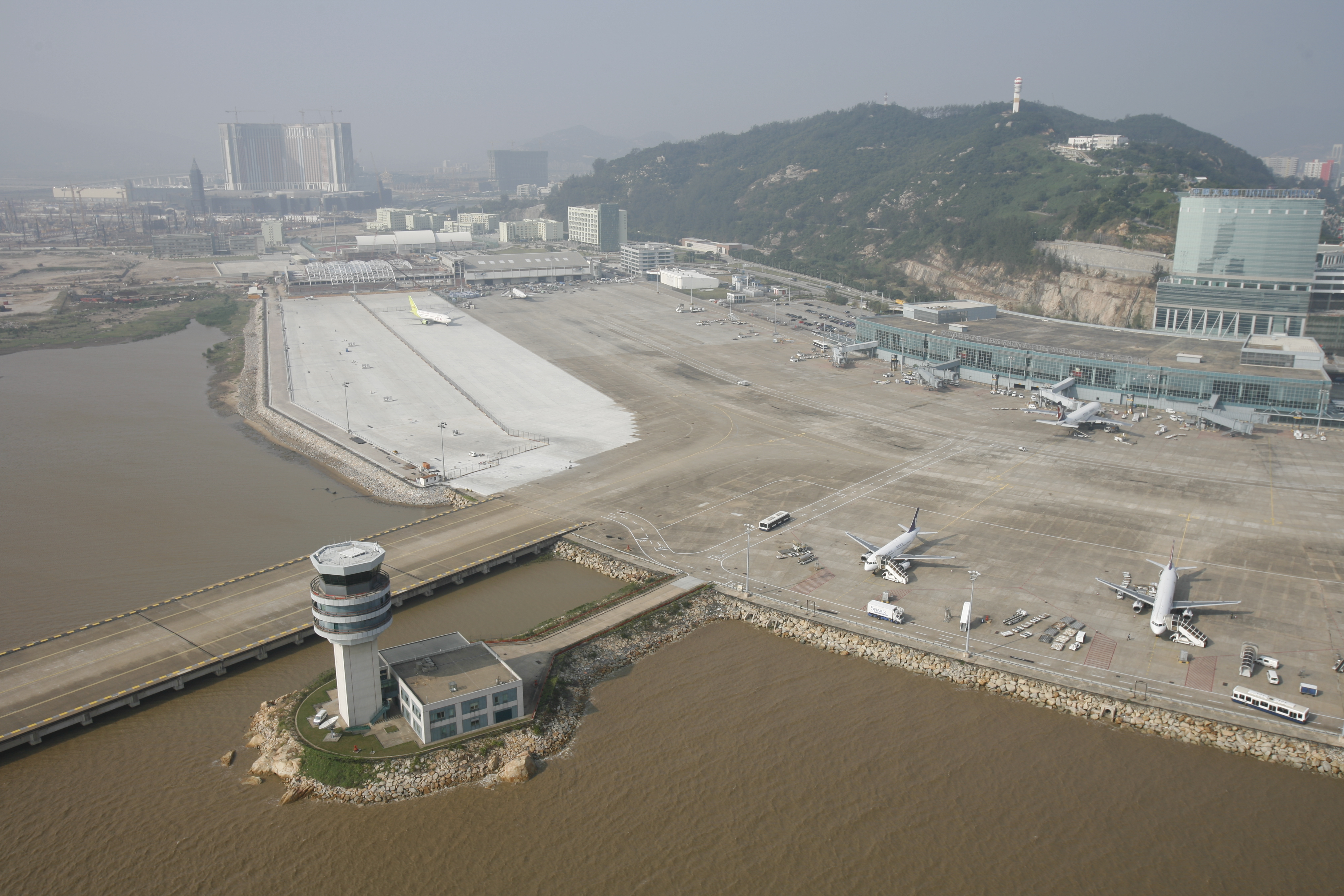 Macau International Airport overview